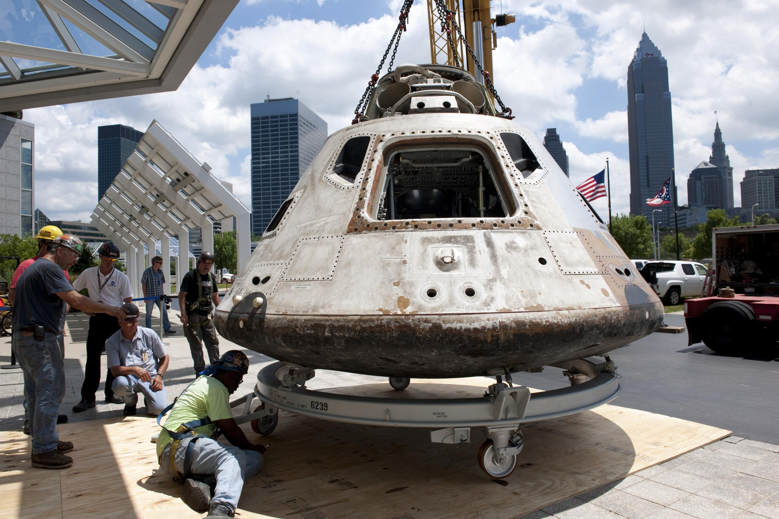 A piece of NASA history landed at the Glenn Research Center's Visitor Center, now located at the Great Lakes Science Center in Cleveland, Ohio. The Apollo Command Module, used for the Skylab 3 mission in 1973, was moved successfully from Glenn to the Science Center on Tuesday, June 22. The module will be the focal point of the Visitor Center, which includes space and aeronautics artifacts, models and interactive experiences. The move was carefully planned to protect and preserve the module, which weighs 12,800 pounds and is more than 11 feet tall and 13 feet wide. The module is on loan from the Smithsonian’s National Air and Space Museum.